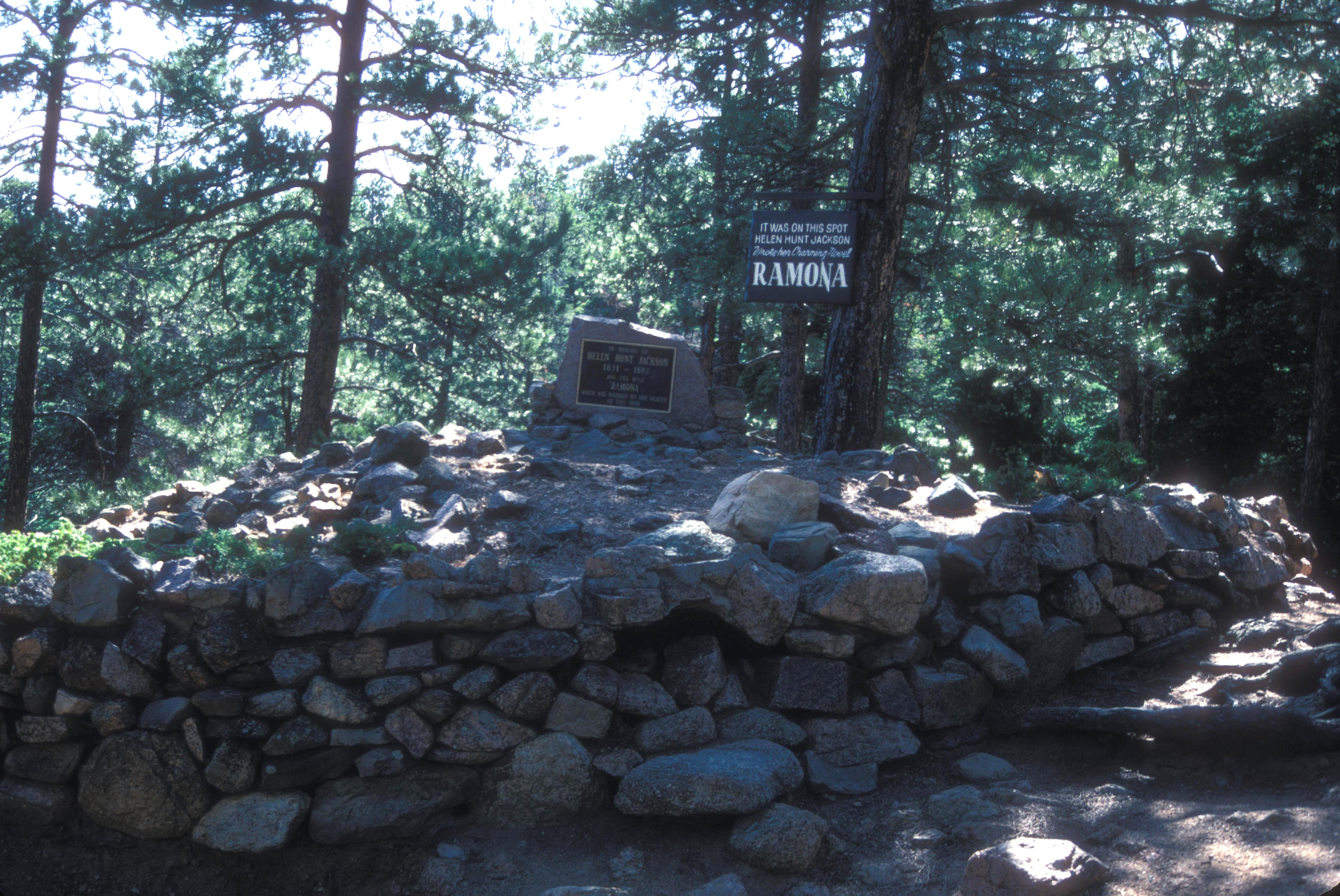 HELEN HUNT JACKSON'S GRAVE; JACKSON DIED IN COLORADO SPRINGS WHERE SHE HAD COME TO CONVALESCE FROM TUBERCULOSIS; HOWEVER SHE APPARENTLY DIED OF STOMACH CANCER AT AGE 55